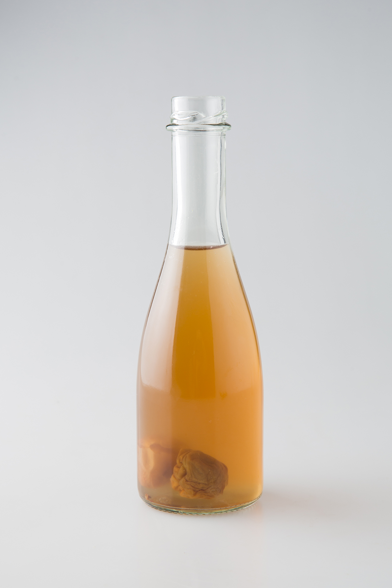 Maesilju, liquor made of plums(Prunus mume)